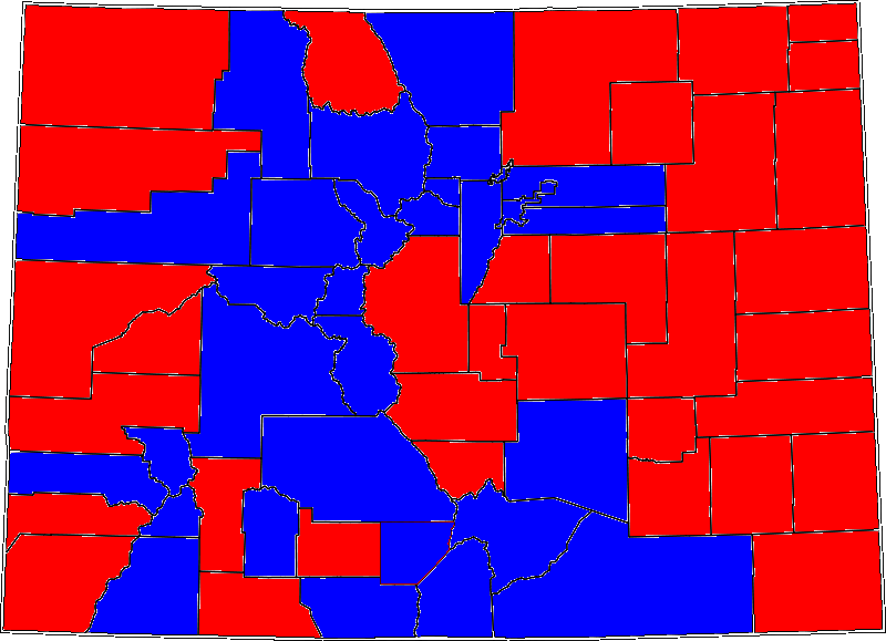 2008 Colorado Senate election results by county.